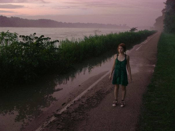 Alice In Wonderland, model: Šárka Nohelová.